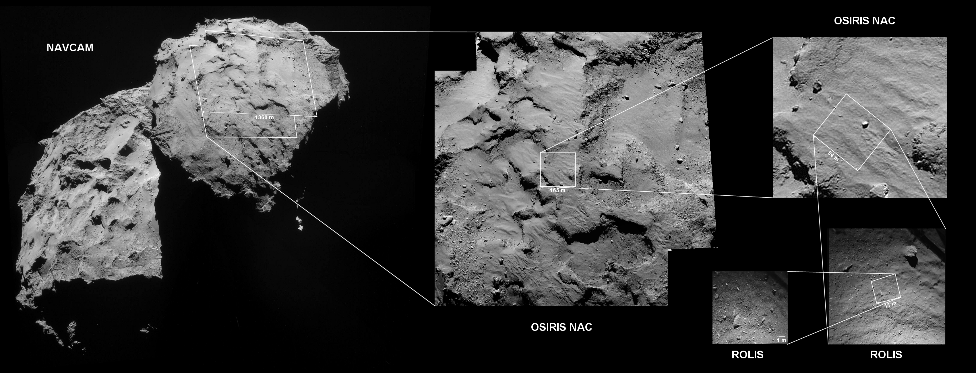 Philae's landing site Agilkia on the comet 67P/Churyumov-Gerasimenko from different imagers and in different scales. The last ones are from the Philae's imager ROLIS. Credit: ESA / Rosetta / NAVCAM, CC BY-SA IGO 3.0 / Philae / ROLIS / DLR / MPS for OSIRIS Team MPS / UPD / LAM / IAA / SSO / INTA / UPM / DASP / IDA / Daniel Macháček.